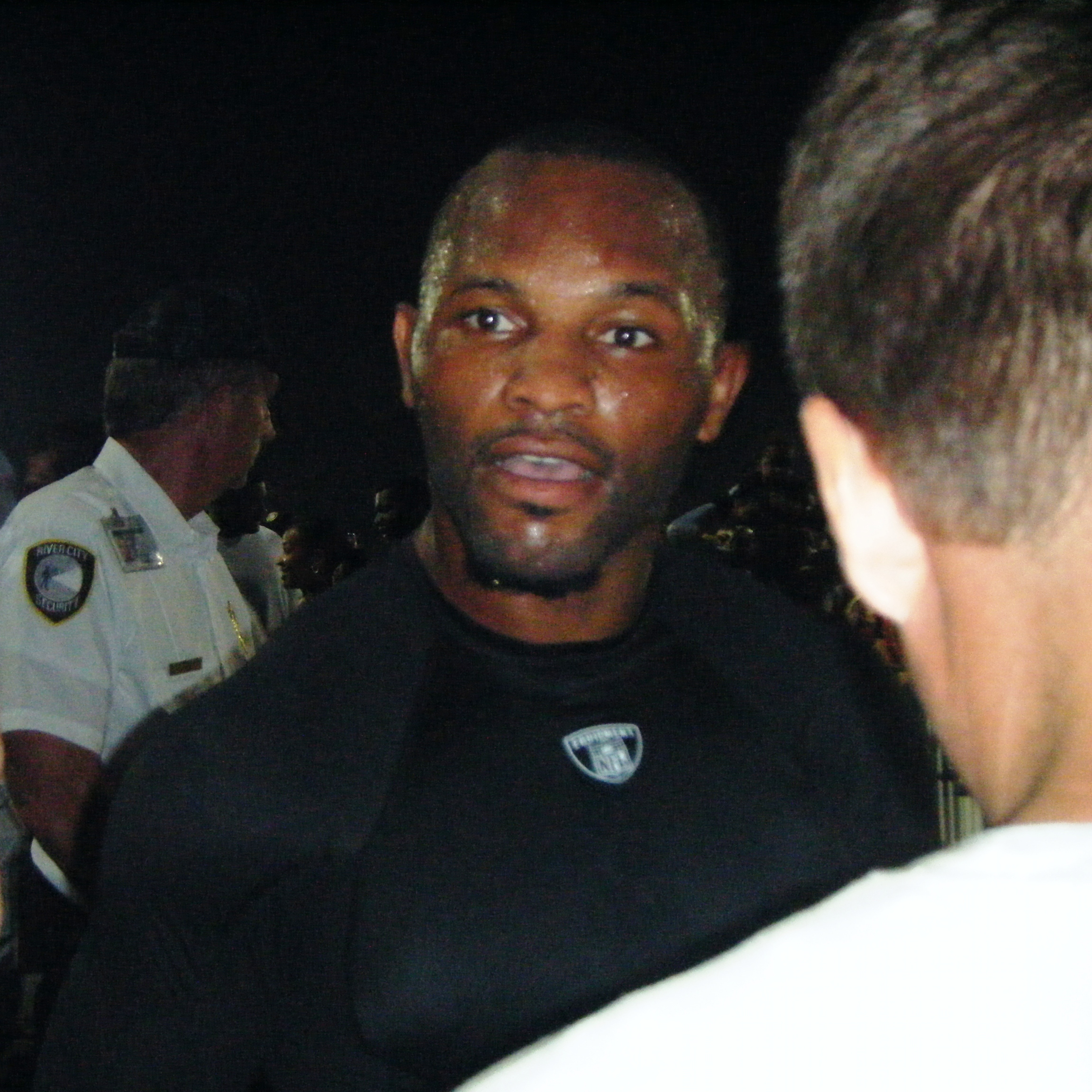 Fred Taylor, Jacksonville Jaguars running back, signs autographs and speaks with fans after practice on July 28, 2008.